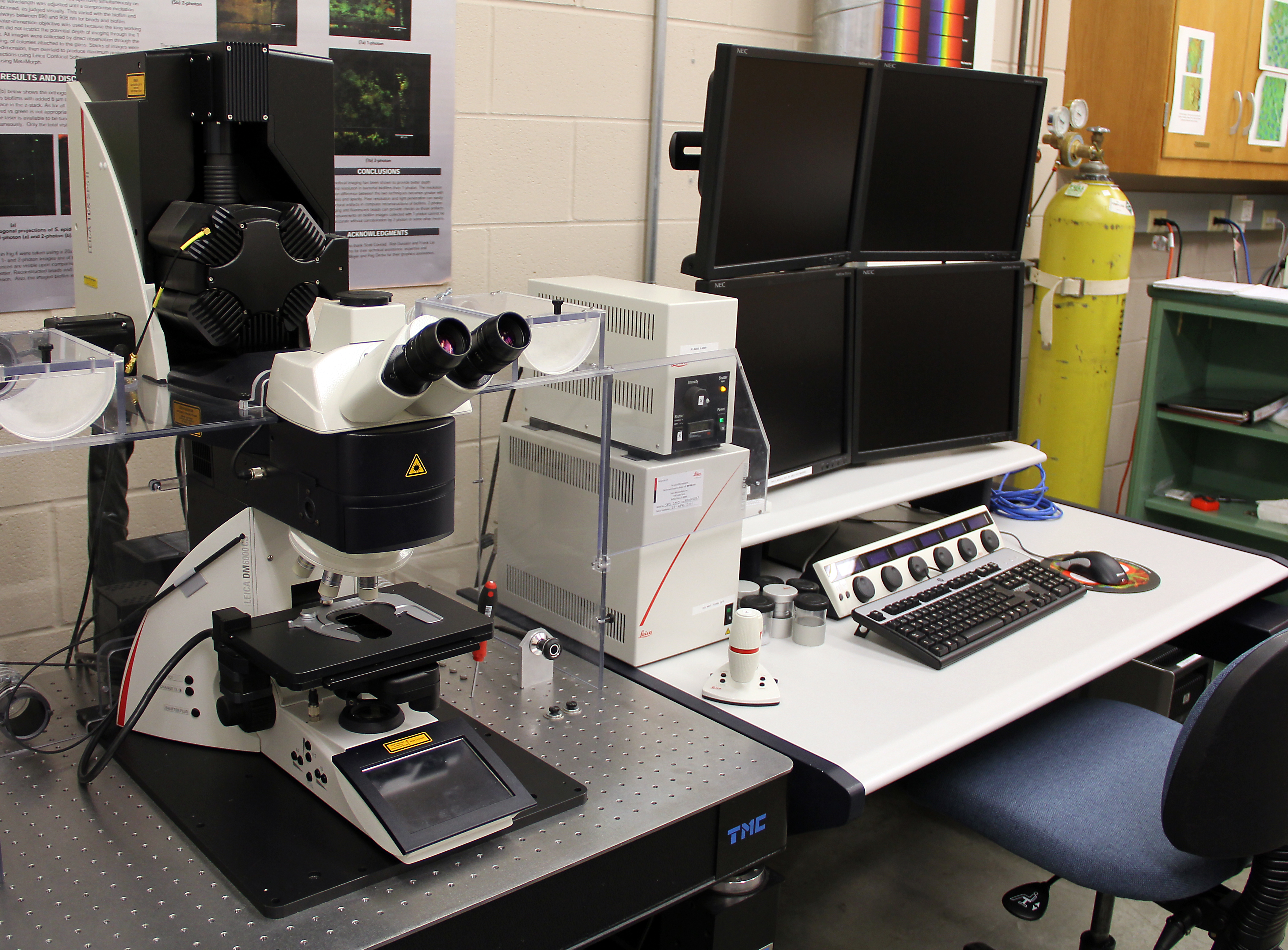 Confocal Microscopes Center for Biofilm Research Montana State University